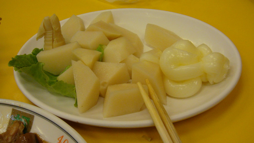 Snack with fresh bamboo and mayonaise